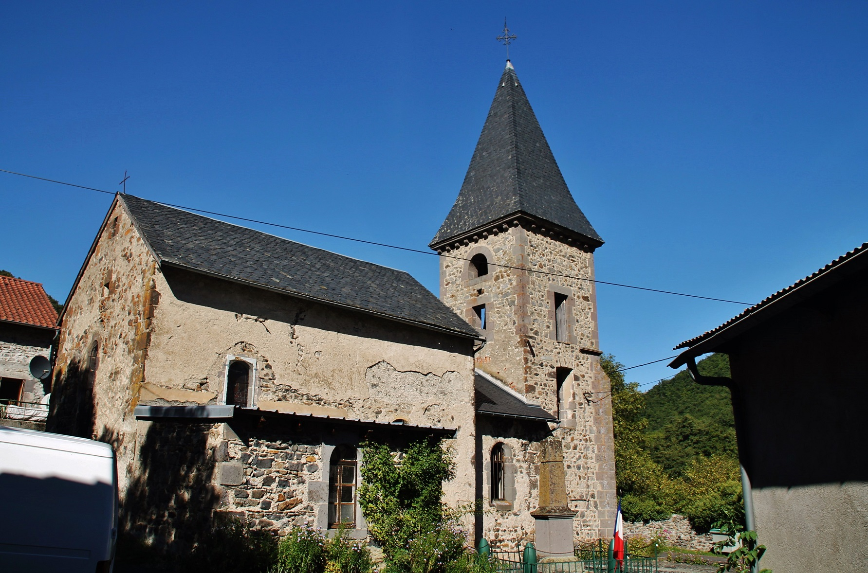 l'église